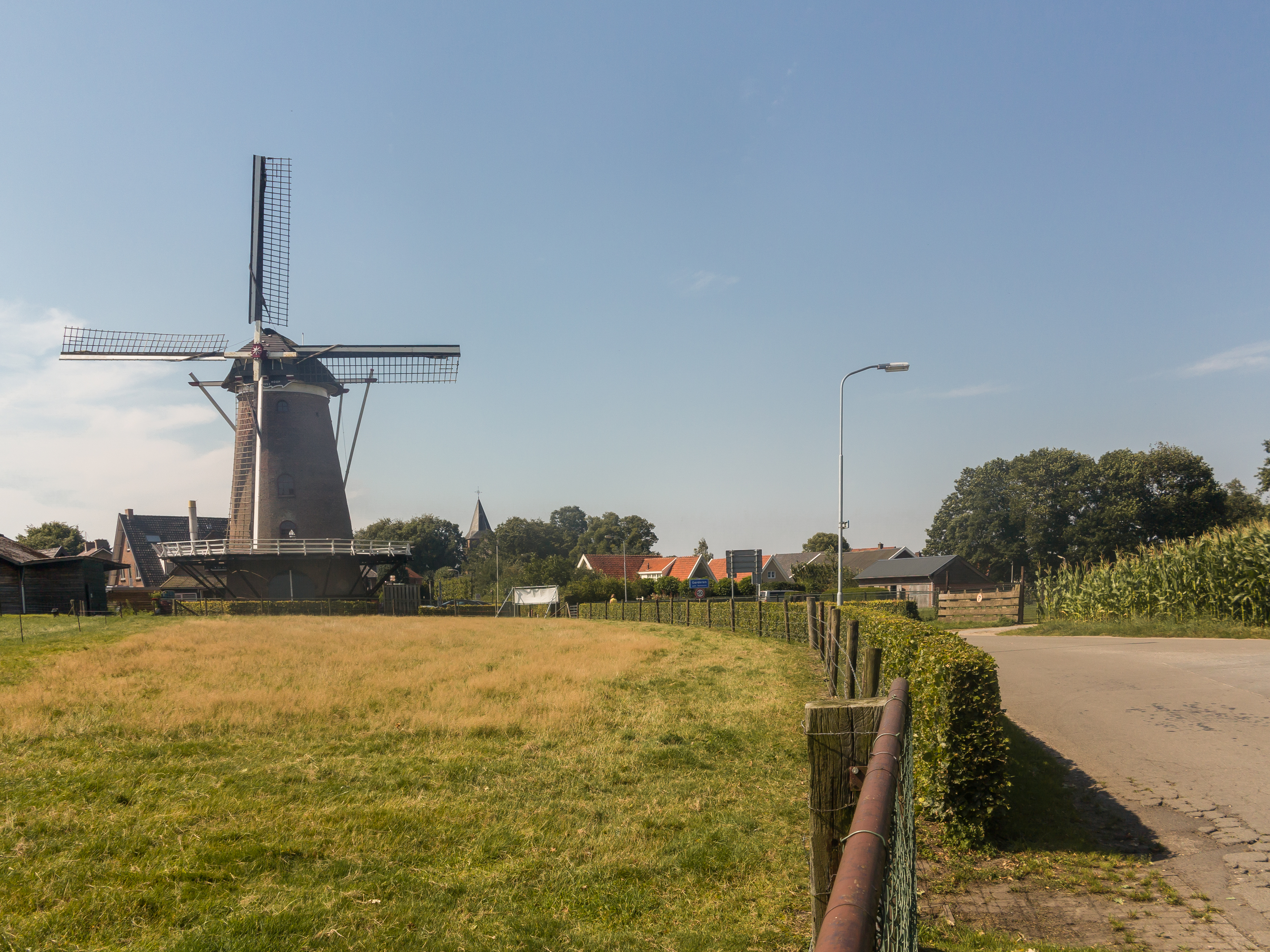 Garderen,windmill (molen de Hoop) in the street